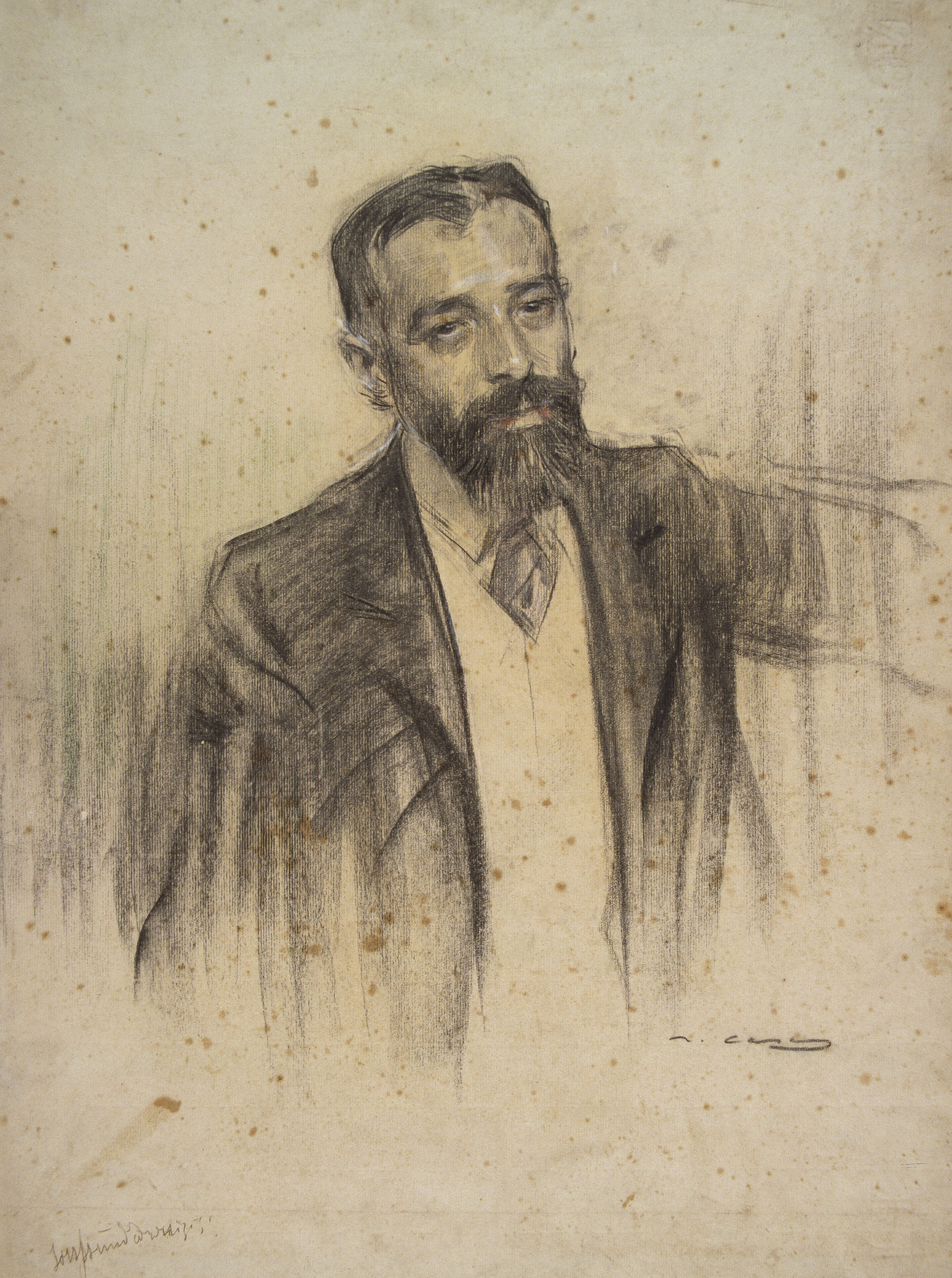 Portrait by Ramon Casas conserved at MNAC in Barcelona. Imagen 135